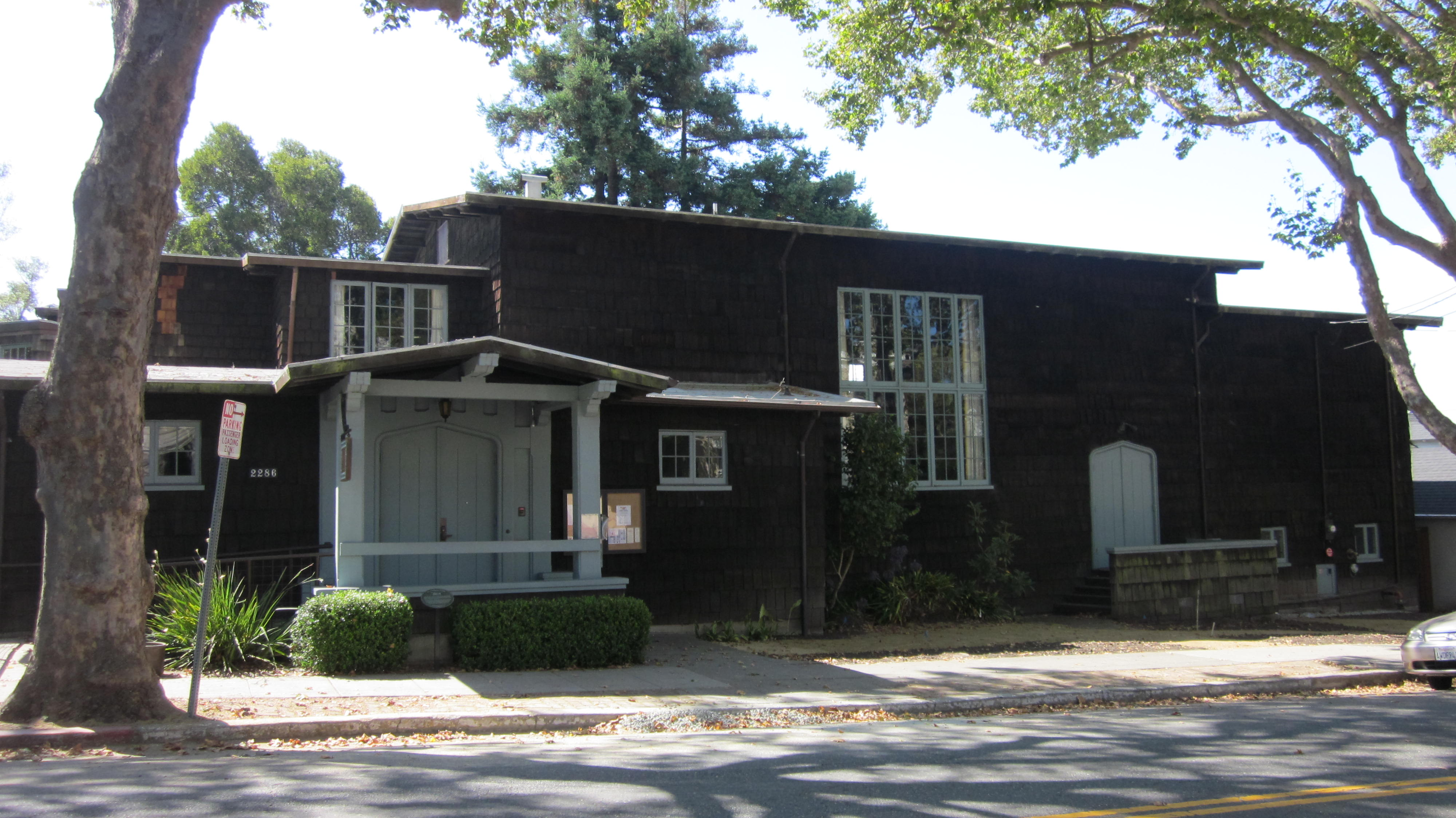 The Hillside Club in North Berkeley, California. Bernard Maybeck designed the original 1906 clubhouse, which was destroyed in the 1923 Berkeley Fire. John White, Maybeck's brother-in-law, designed the current clubhouse in 1924.